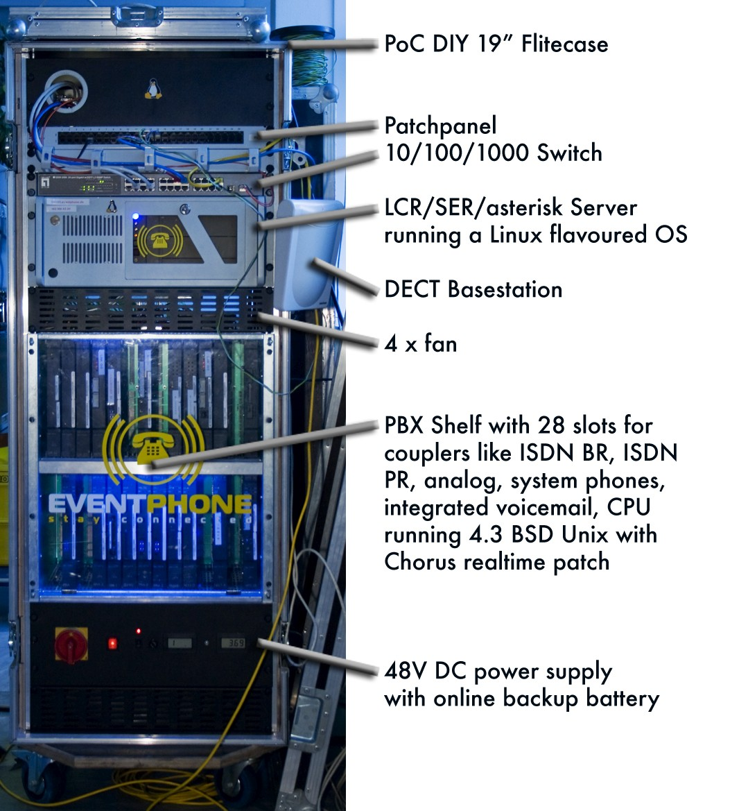 The EVENTPHONE rack until 2017 on Alcatel basis.